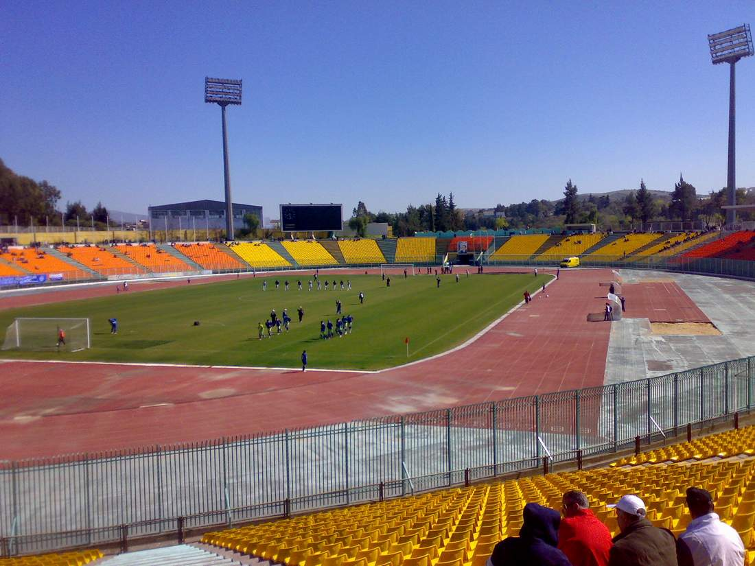 Mohamed Hamlaoui Stadium in Constantine (Algeria)